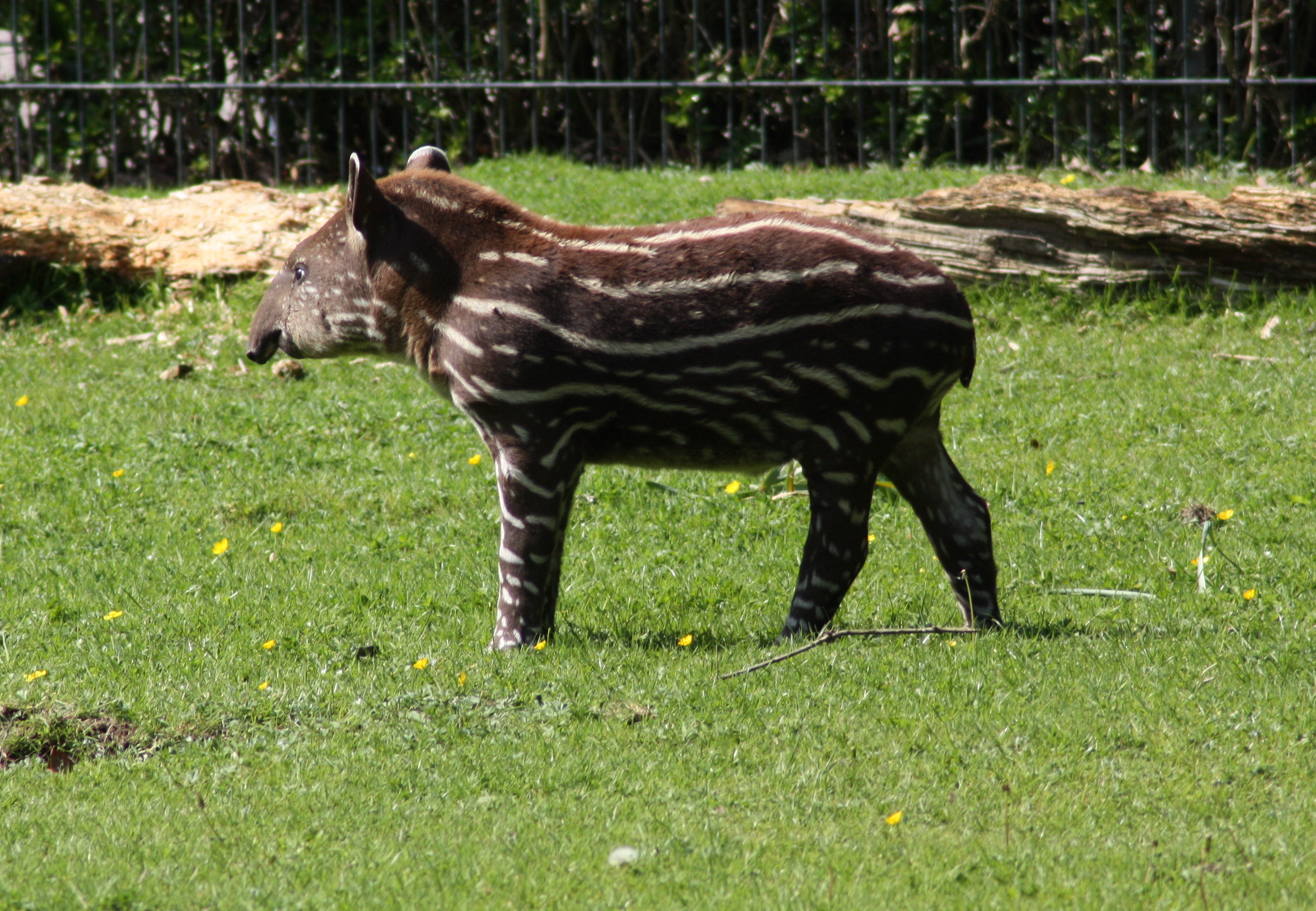 Young Brazilian Tapir at the Dortmund Zoo